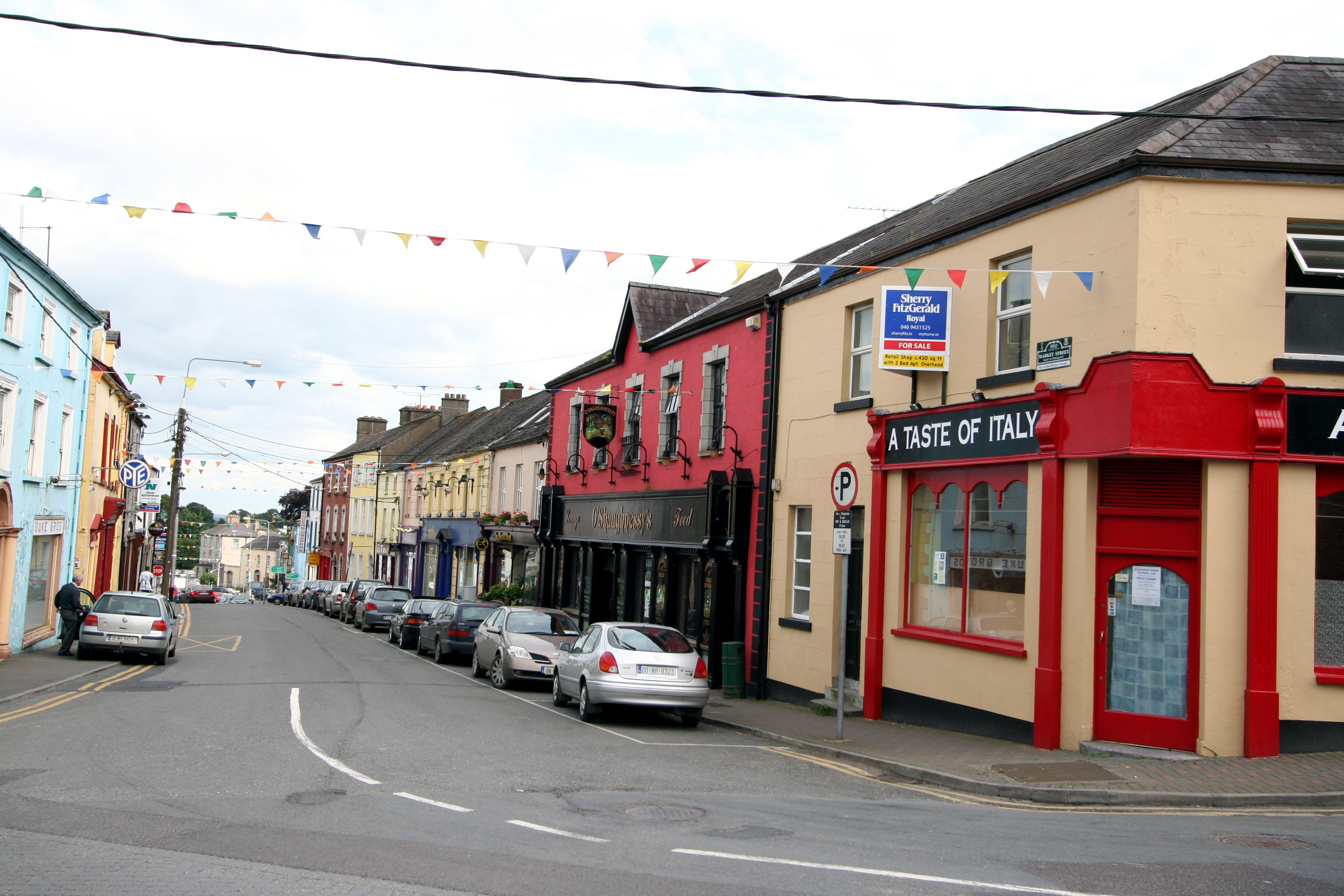 Kelss, County Meath